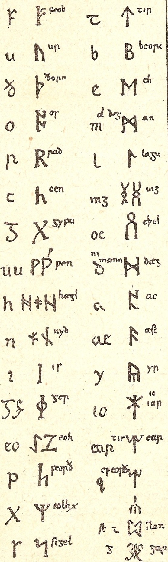 Anglo-saxon futhark from Cotton Domitian